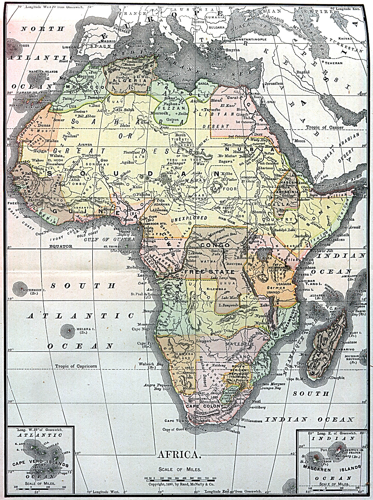 Africa in 1890. "Africa" from Americanized Encyclopaedia Britannica Vol. 1, Chicago 1892.